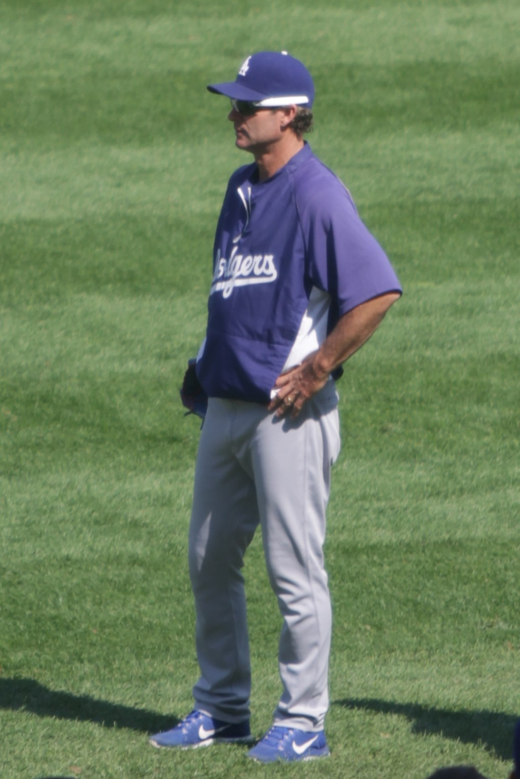 Chuck Crim (identified by WP User:Spanneraol)